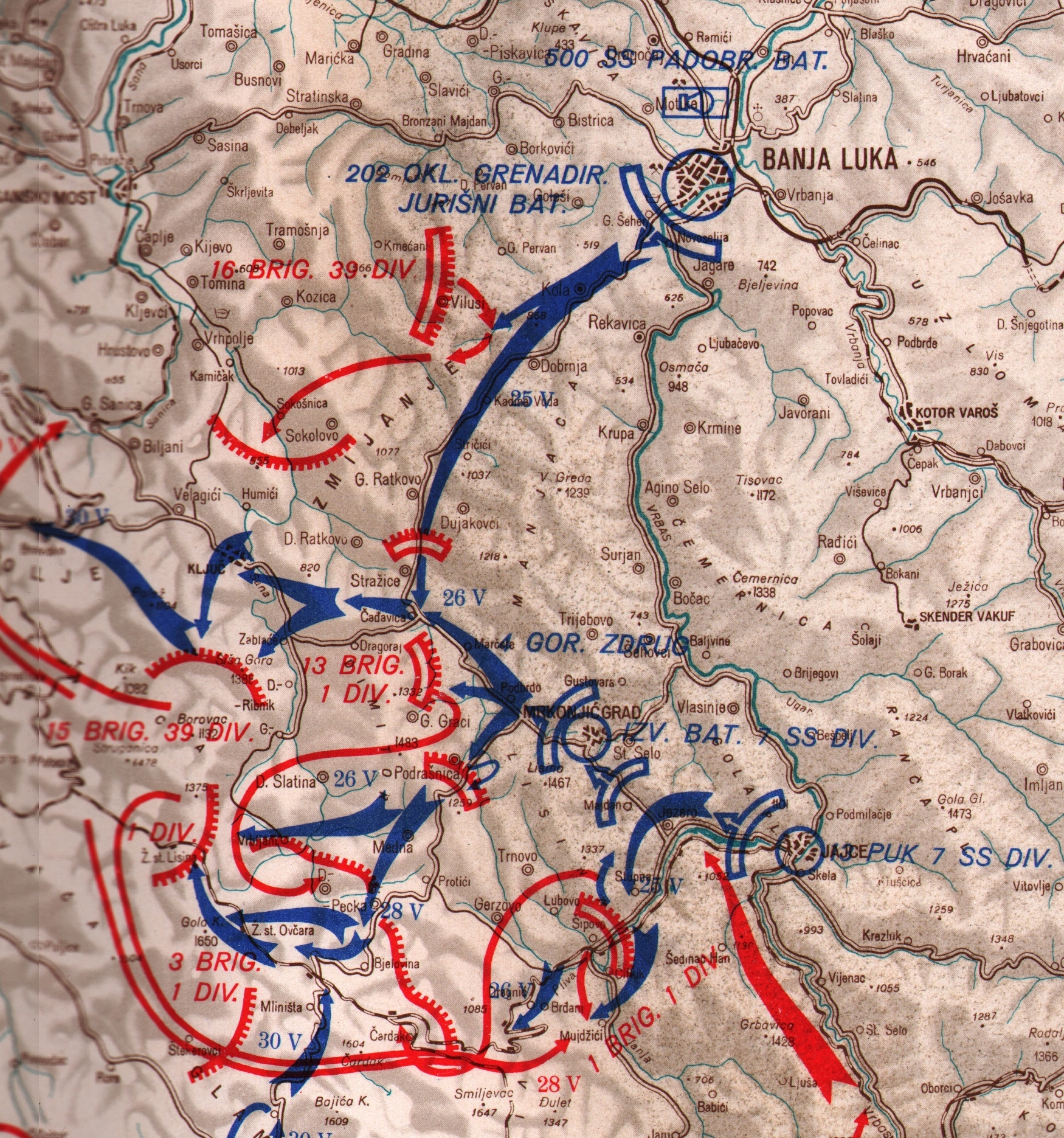 cropped map showing the deployment and lines of attack of the 7th SS Division on 25 May 1944 during Operation Rösselsprung